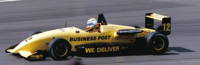 James Matthews driving for David Sears Motorsport at Silverstone during the 1995 British Formula Three Championship season.